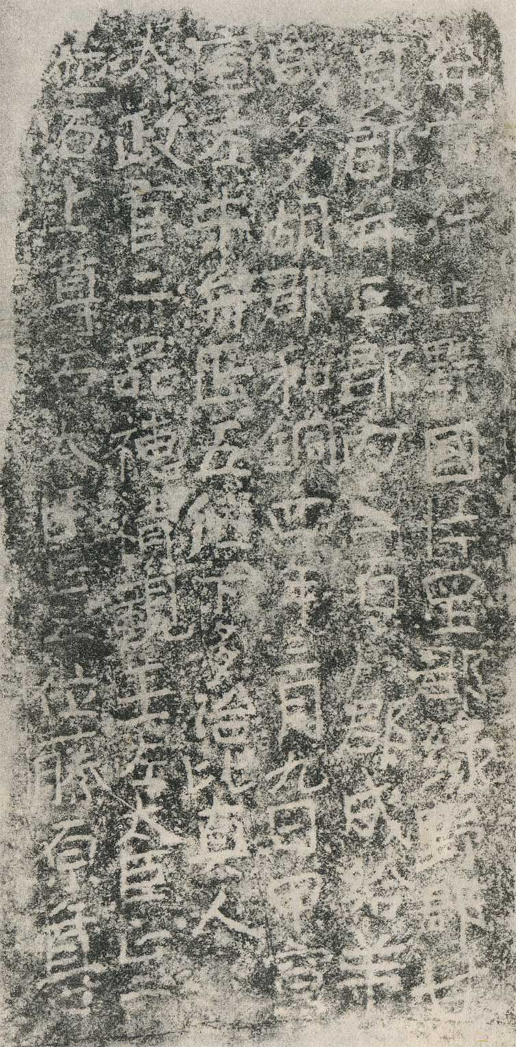 Tako-gunpi in Tano County, Gunma Prefecture